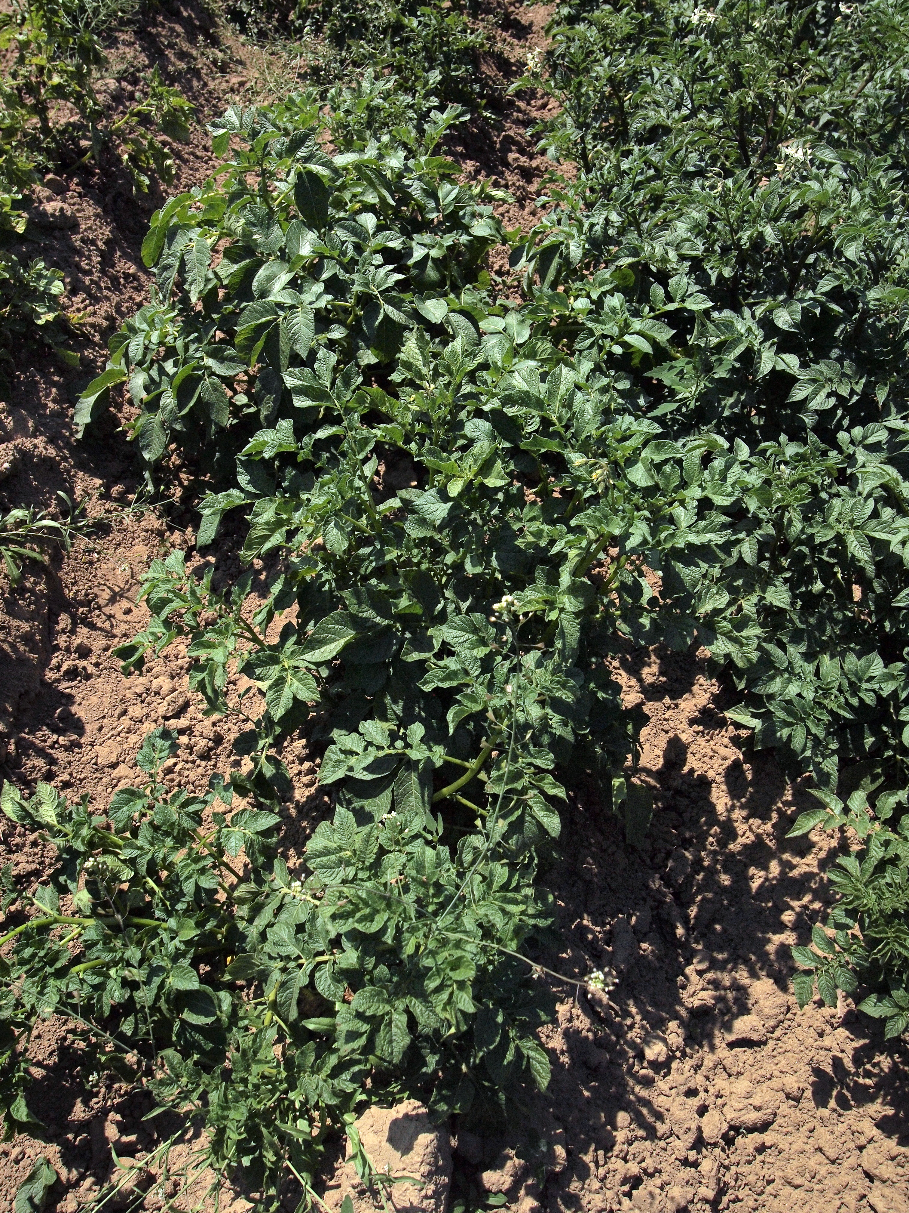 This potato-picture was taken by Ordercrazy with permission of Christian Müller from Aletshofen, municipality of Ettringen, Germany.